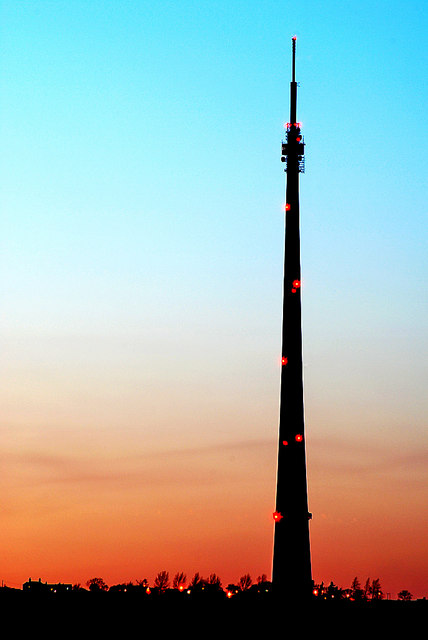 Emley Moor mast at sunset Just as the sun disappeared